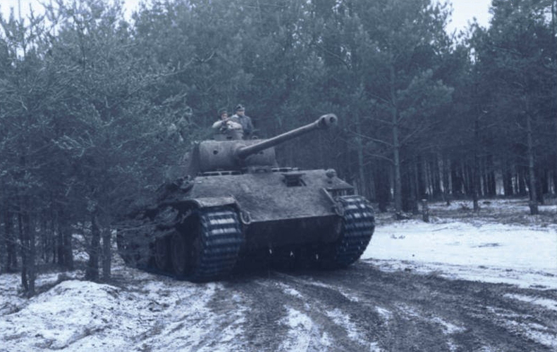 This is a retouched picture, which means that it has been digitally altered from its original version. Modifications: recolored by User:Ruffneck88. == Recolored Version of this image. Russland, Panzer V (Panther) Photographer SchnitzerArchive description Description provided by the archive when the original description is incomplete or wrong. You can help by reporting errors and typos at Commons:Bundesarchiv/Error reports. Sowjetunion, bei Kirowograd.- Panzer V "Panther" bei Fahrt durch Wald im Winter; PK Fs AOKTitle Russland, Panzer V (Panther) Depicted place RussiaDate December 1943date QS:P571,+1943-12-00T00:00:00Z/10Collection German Federal Archives Native nameDas BundesarchivLocationKoblenz (headquarters)Coordinates50° 20′ 32.71″ N, 7° 34′ 21.22″ E Established1946Web page control : Q685753 VIAF: 137346469 ISNI: 0000 0004 0555 2728 LCCN: n92025526 NLA: 36455393 Open Library: OL55798A WorldCat institution QS:P195,Q685753Current location Propagandakompanien der Wehrmacht - Heer und Luftwaffe (Bild 101 I)Accession number Bild 101I-571-1721-13 Source This image was provided to Wikimedia Commons by the German Federal Archive (Deutsches Bundesarchiv) as part of a cooperation project. The German Federal Archive guarantees an authentic representation only using the originals (negative and/or positive), resp. the digitalization of the originals as provided by the Digital Image Archive.